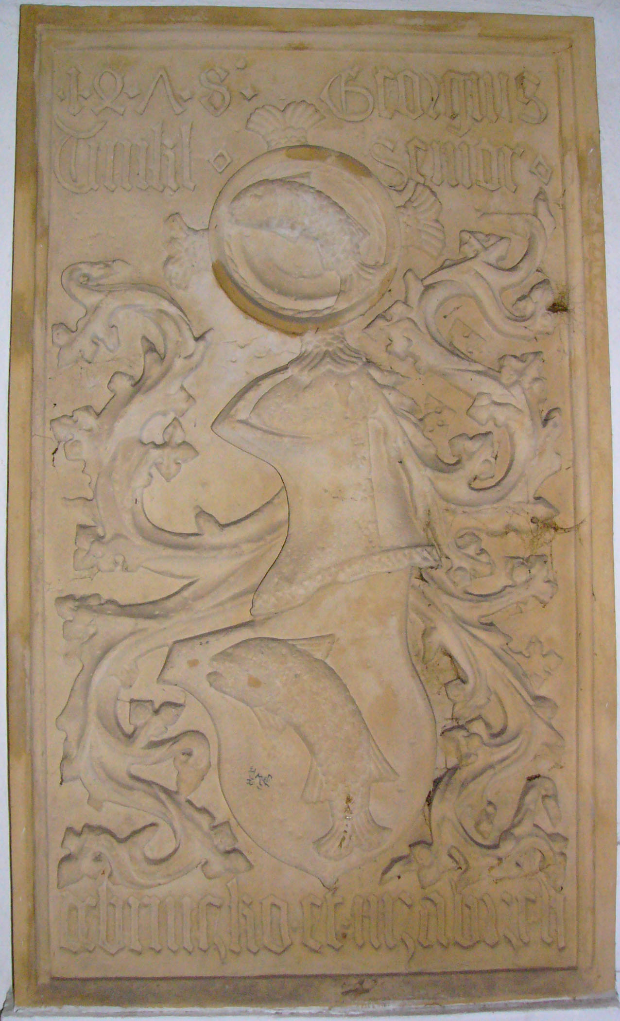 Plaque of Georgius Tunkl with Coat of arms of Tunkl noble family at castle in Zábřeh (Czech Republic). There is written: 1478 Georgius Tunkl Senior de brniczko et in zabrzeh.